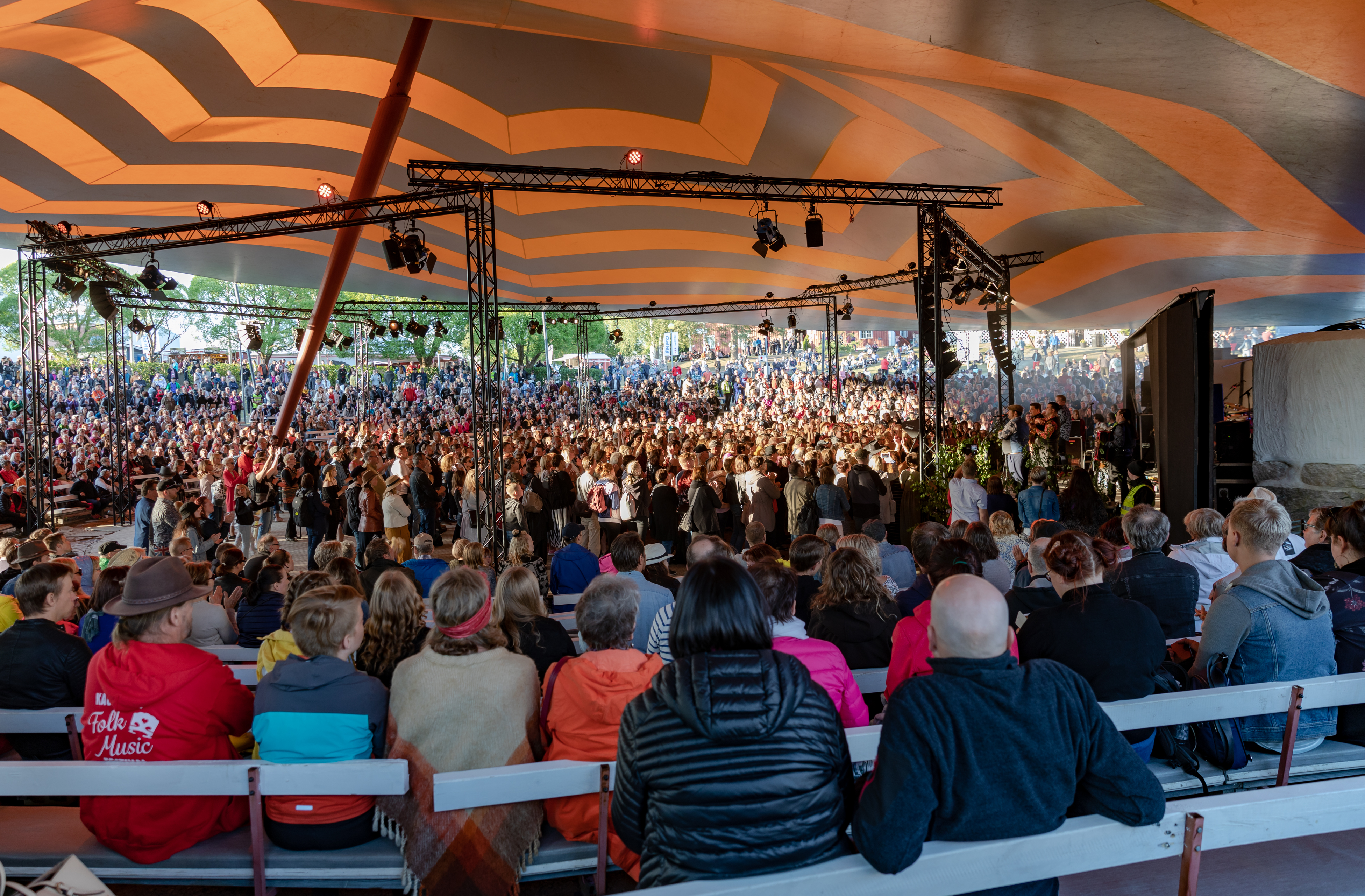 The Keskipohjanmaa Arena, the main arena of the festival, at the 2019 Kaustinen Folk Music Festival.